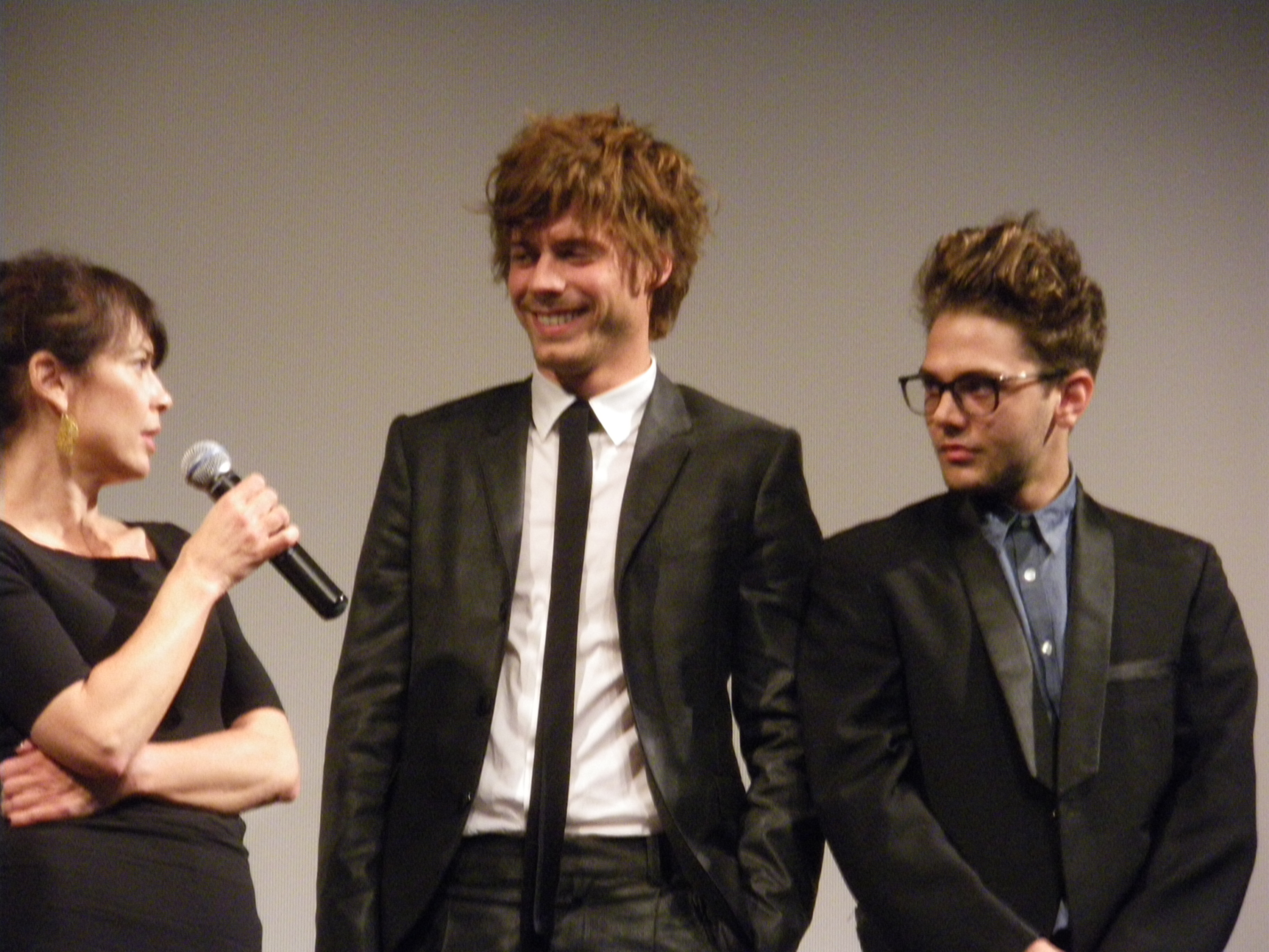 François Arnaud (actor), with Anne Dorval and Xavier Dolan. At the Isabel Bader Theatre for one of the en:2009 Toronto International Film Festival screenings of J'ai tué ma mère.